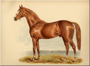 Painting of 1873 2000 Guineas winner Atlantic. Unknown contemporary artist. circa 1874. PD by virtue of date.- 139 years old.